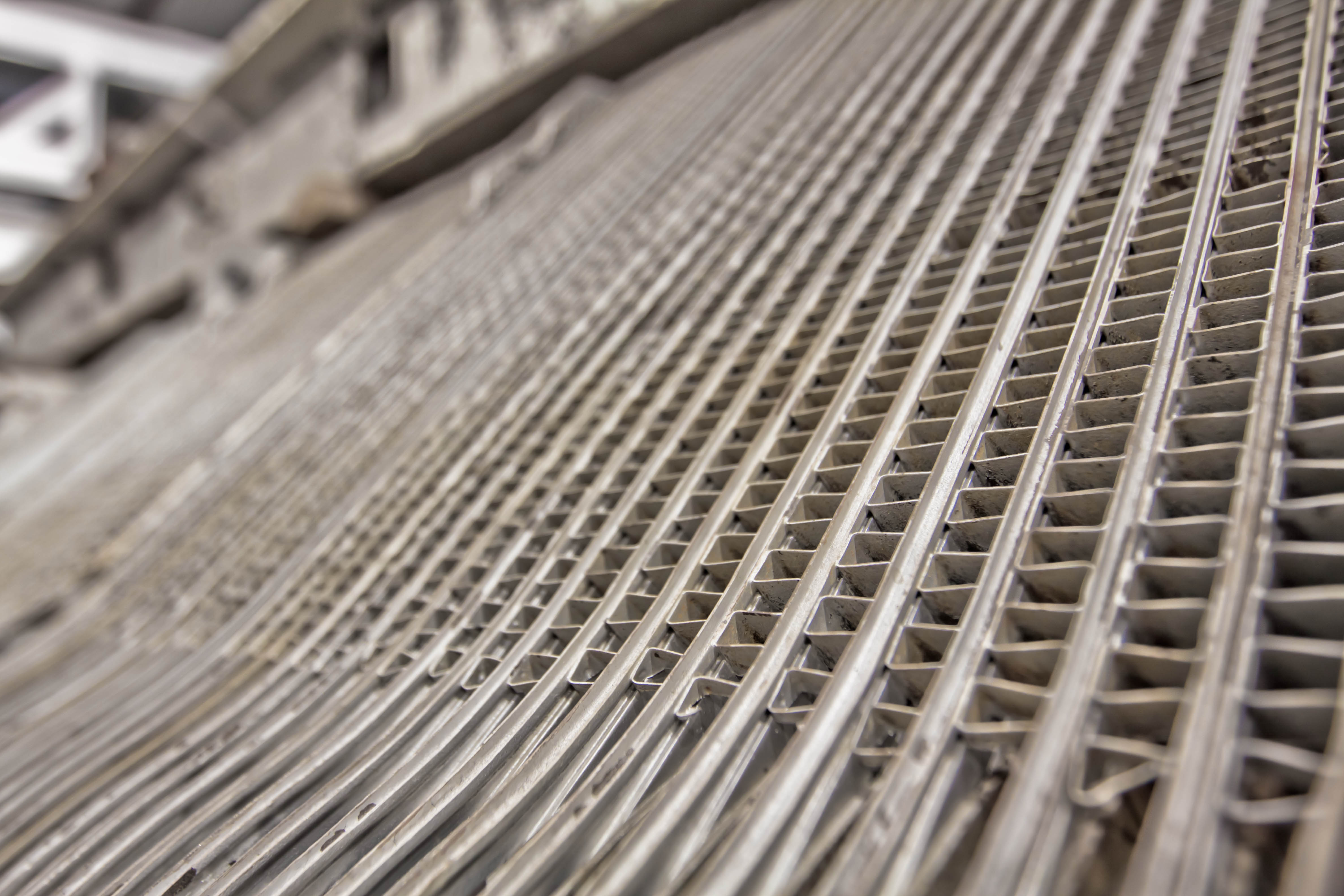 Tension Brazed Plate & Fin Regenerator/Recuperator